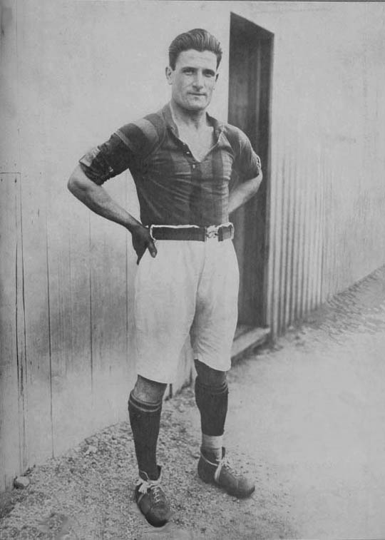 Luis Monti on the cover of El Grafico which described him as "the best centre half of Argentine football". Photo of 1925.